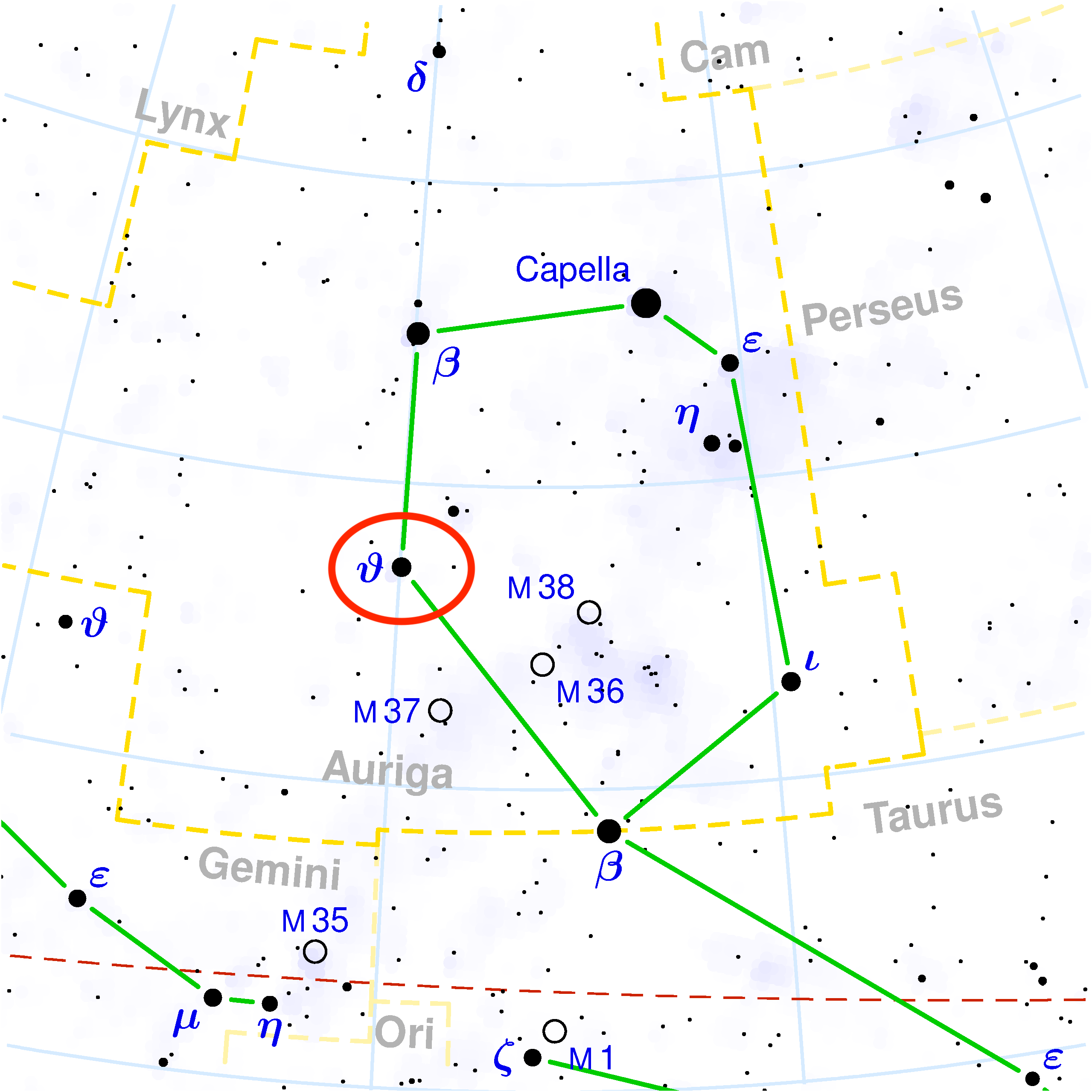 Modified image of the original by Torsten Bronger.